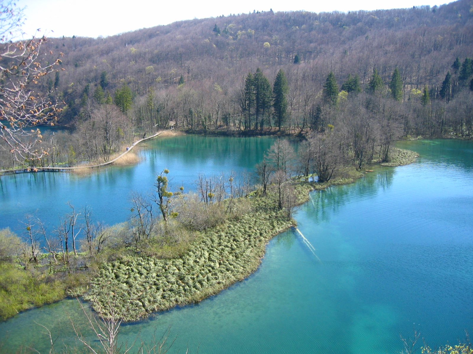 National Park Plitvice Lakes (Croatia), Lake Okrugljak.